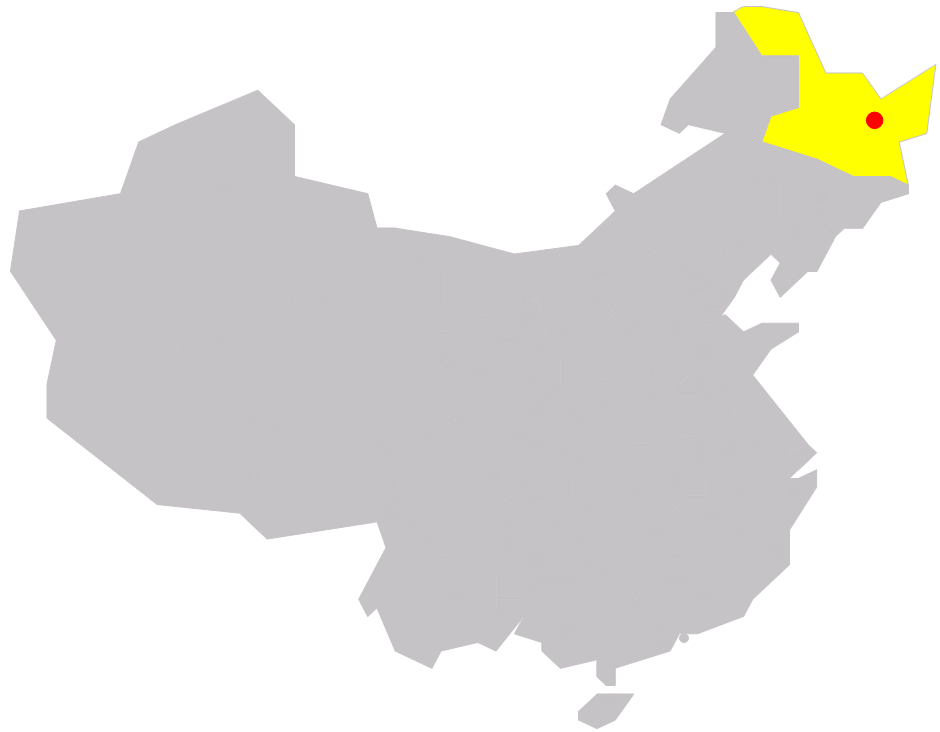 position of Jiamusi in China